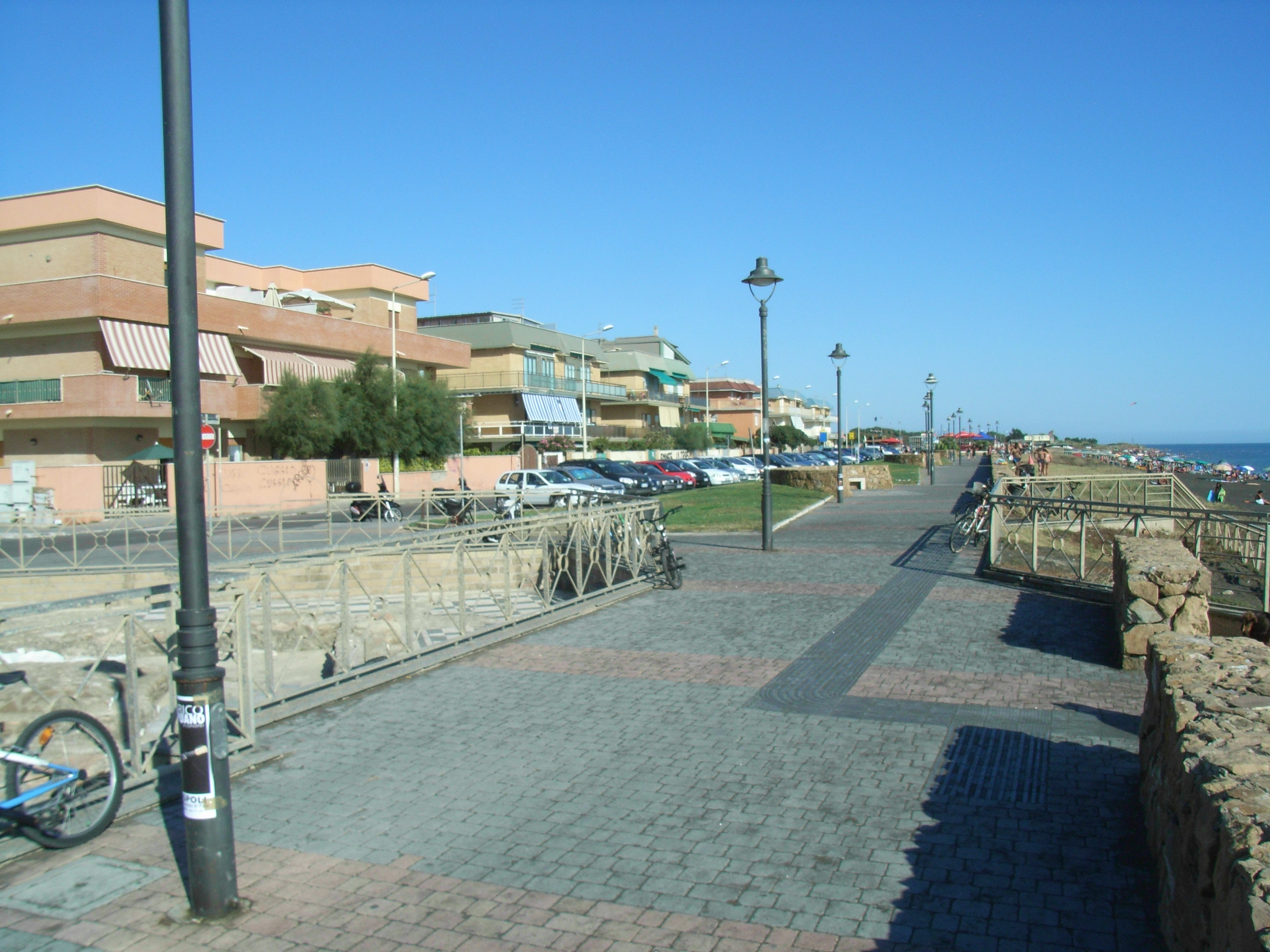 As file